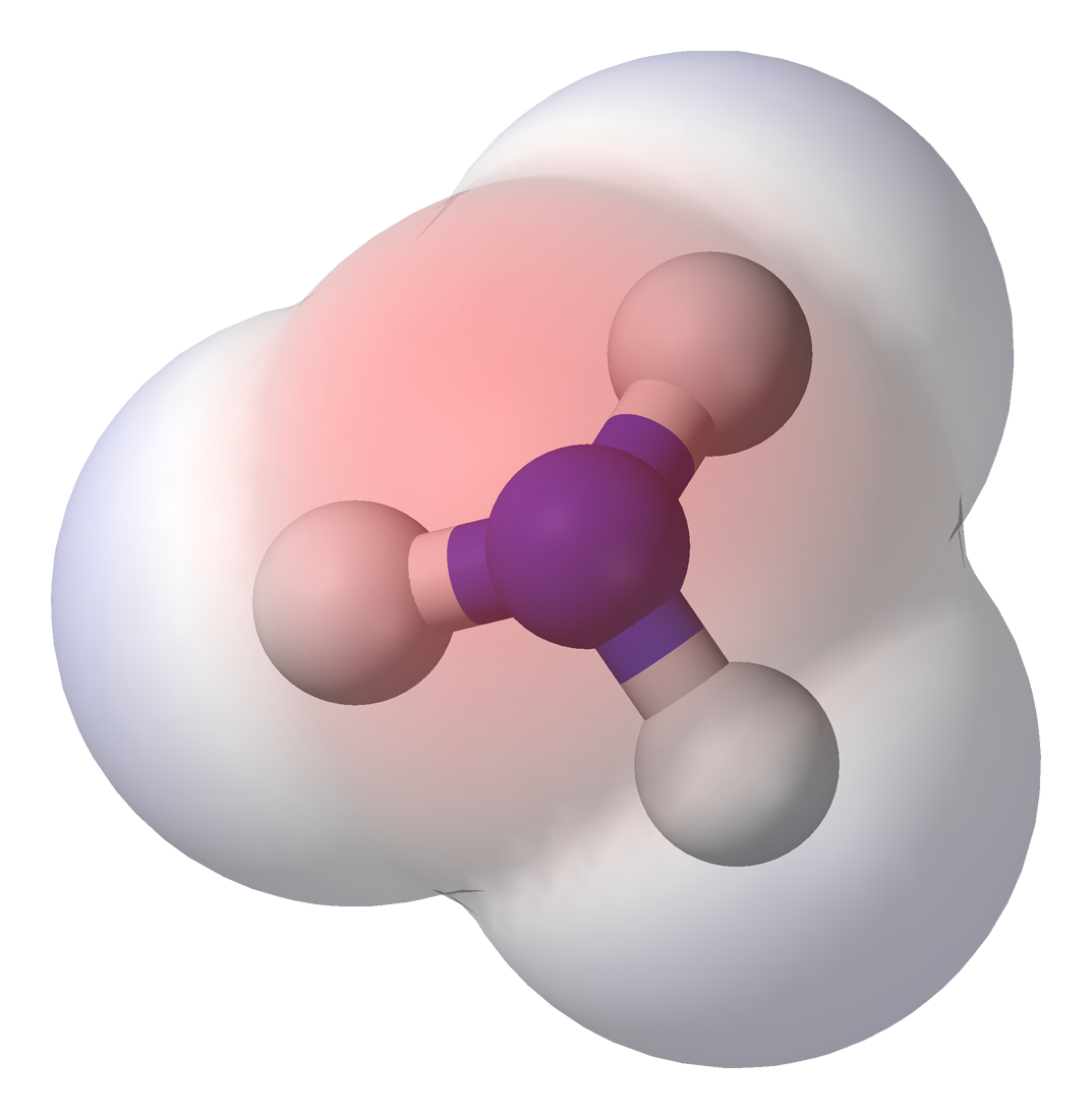 A van der Waals' surface coloured according to charge, superimposed on a ball-and-stick model of the ammonia molecule, NH3. Red represents partially negatively charged regions, blue represents partially positively charged regions, and white represents neutral (uncharged) regions. Created in Accelrys DS Visualizer 1.5, edited with Photoshop Elements 3.0.